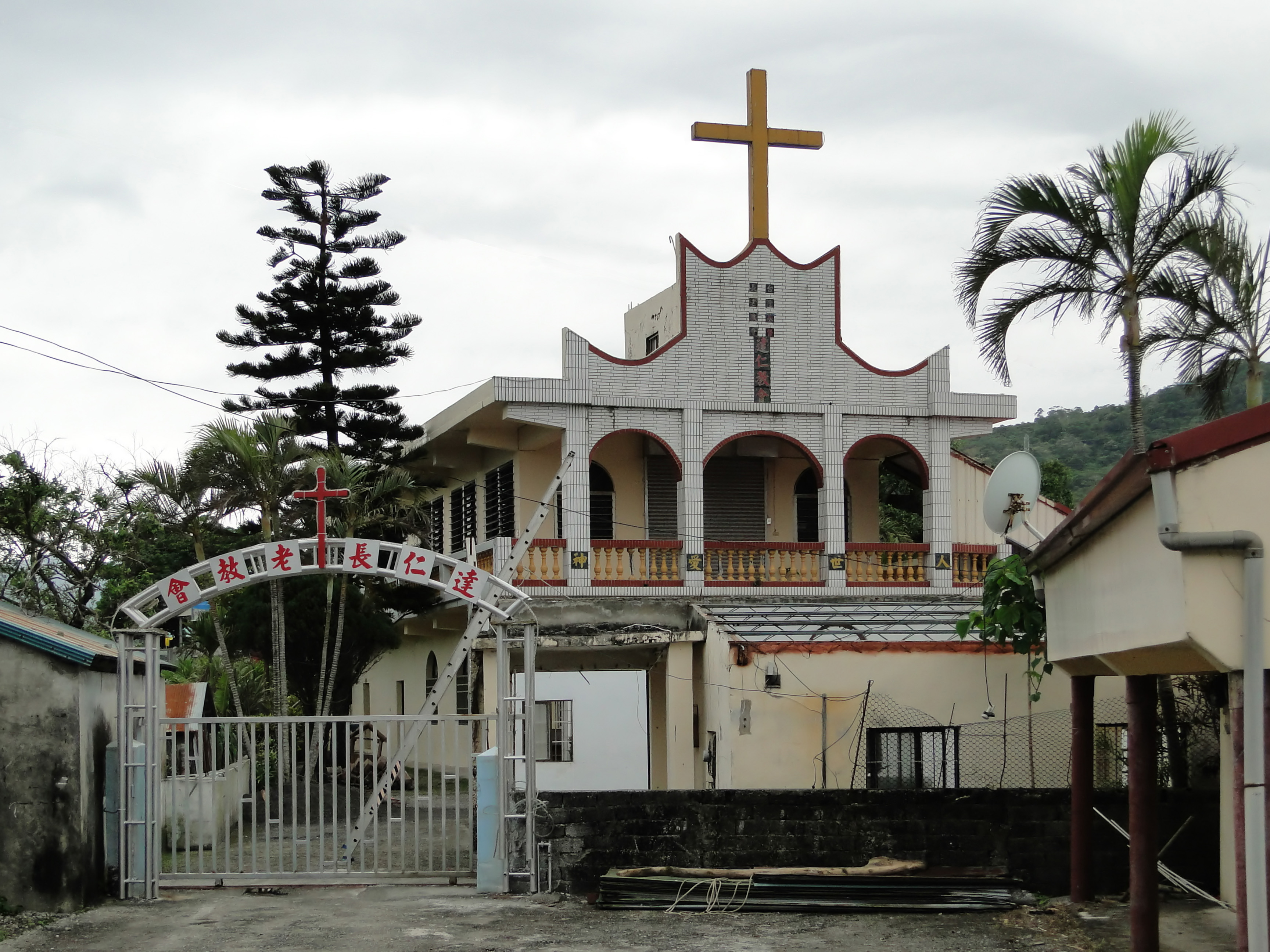 Daren Church, Presbyterian Church in Taiwan, located in Daren Township, Taitung County, Taiwan.